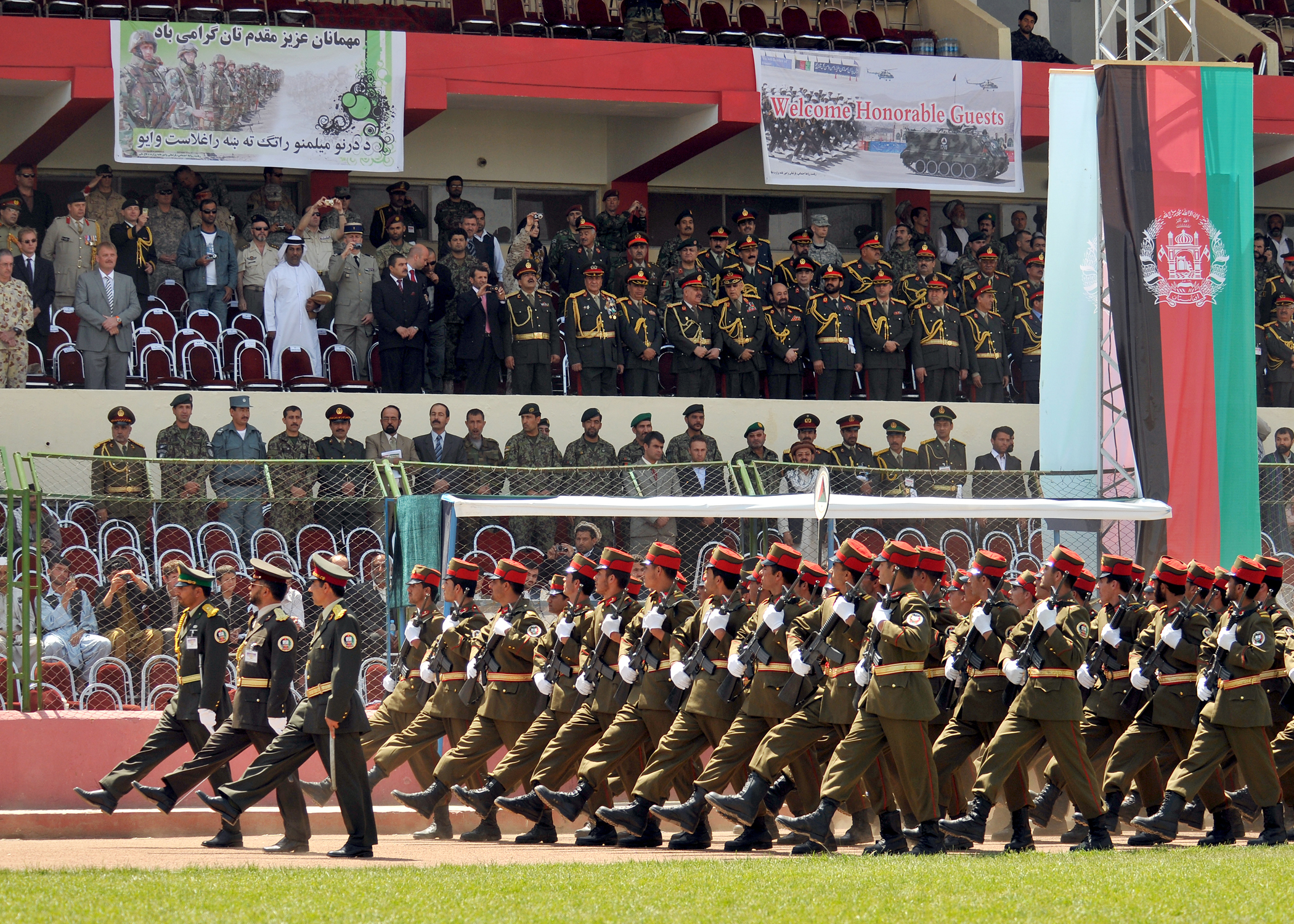 Members of the Afghan National Army march at the Victory Day Parade at the Olympic Center in Kabul, Afghanistan, April 28. The parade is held every year in to commemorate the day when the Afghan mujahideen overthrew the socialist government in Afghanistan in 1992. (NATO Training Mission Afghanistan Photo by Staff Sgt. Markus Maier)